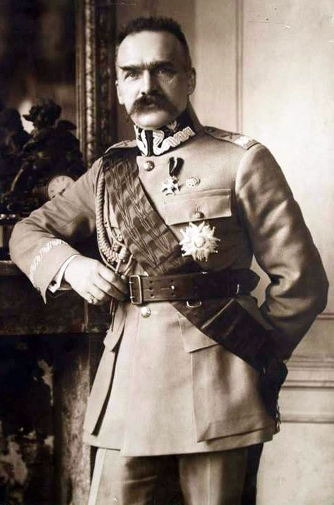 Józef Piłsudski (1867-1935) - Marshall of Poland